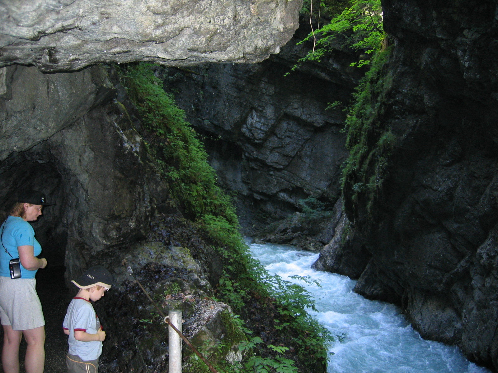 Looking at the force of water